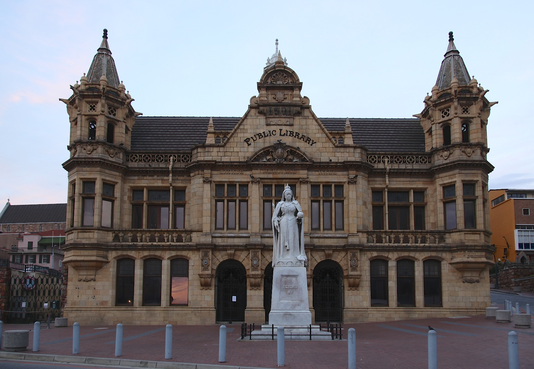 Library, Main Street, Port Elizabeth This media shows a South African Protected Site with SAHRA file reference 9/2/073/0028.